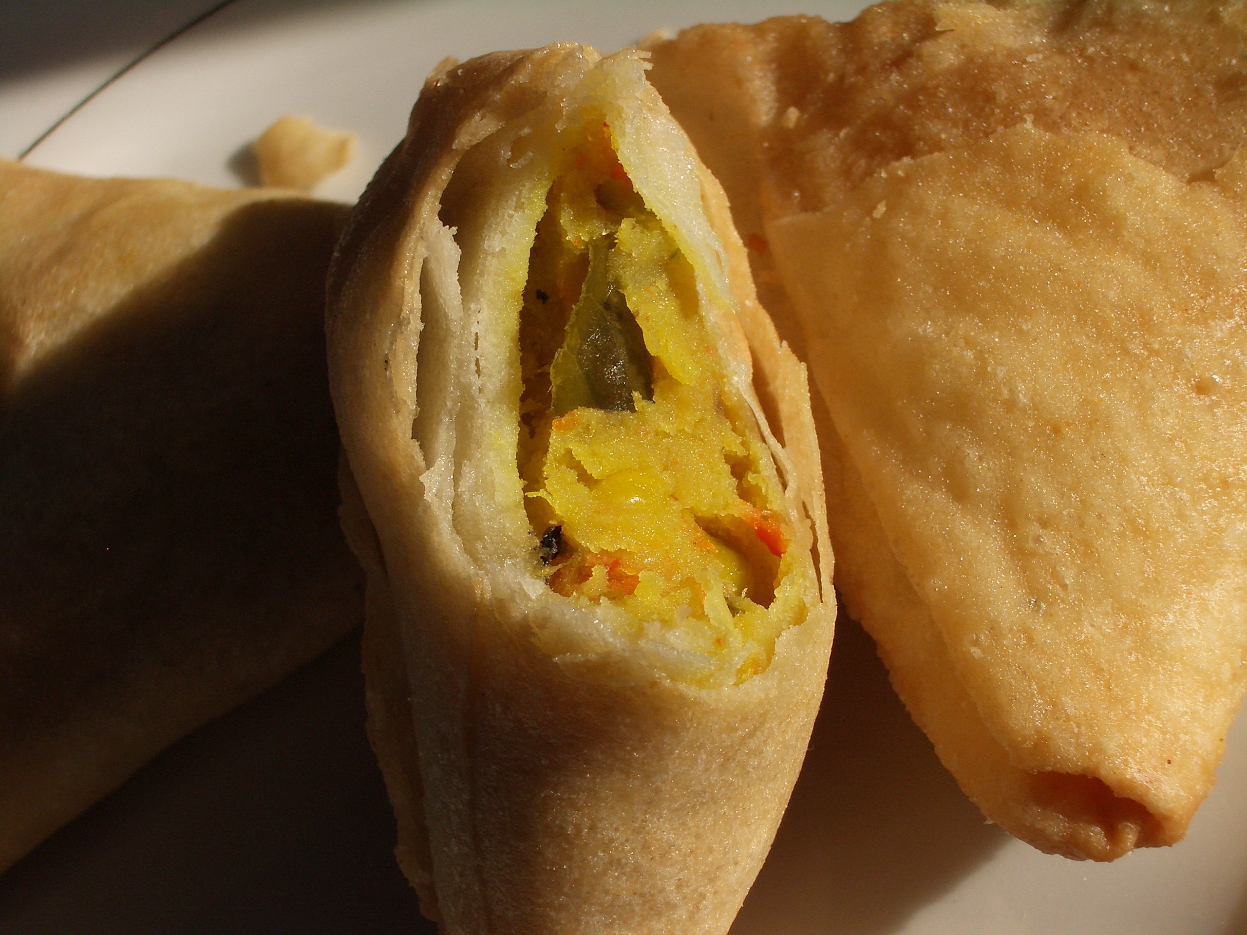 A Samosa, already bitten into, bought at one of the many Indian and Sri Lankan run eateries in the Parisian neighborhood of La Chapelle (Rue Louis Blanc).